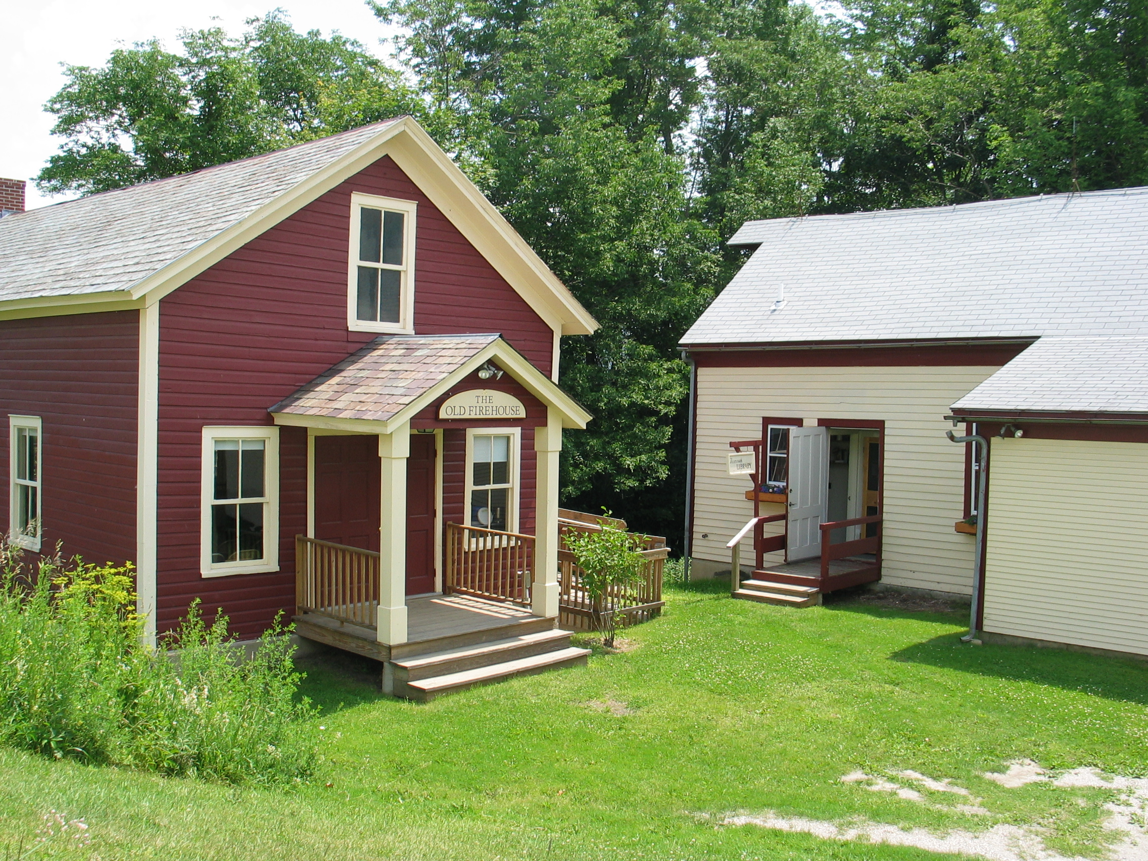 Old fire house on the left, library on the right, Tinmouth, Vermont